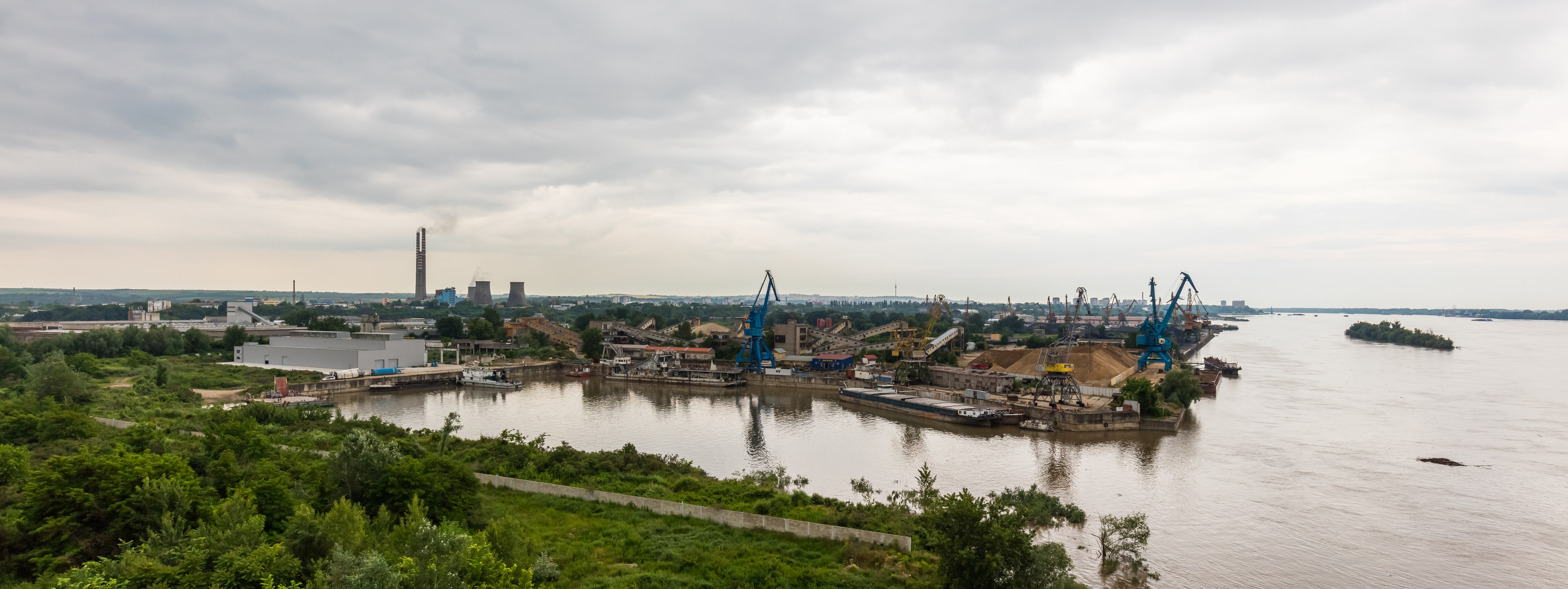 Port of Rousse, Bulgaria